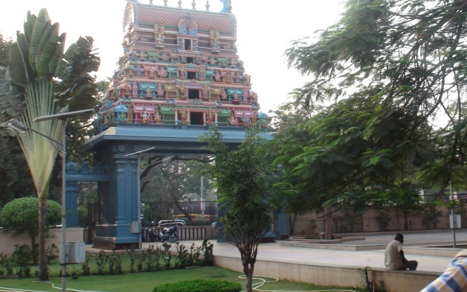 SIES gate